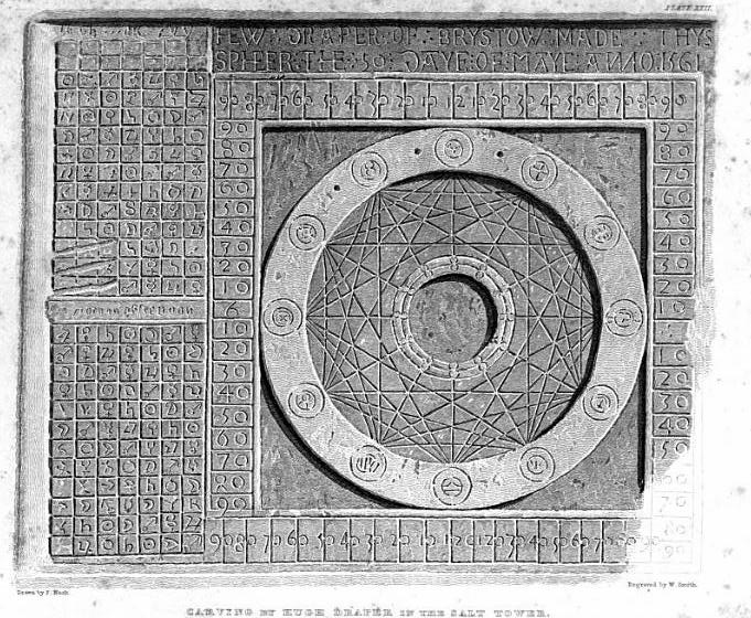 Depiction of the astronomical globe, carved by Hugh Draper into the walls of the Tower of London in the 1560s. This picture was taken from the "The history and antiquities of the Tower of London" printed in 1821.